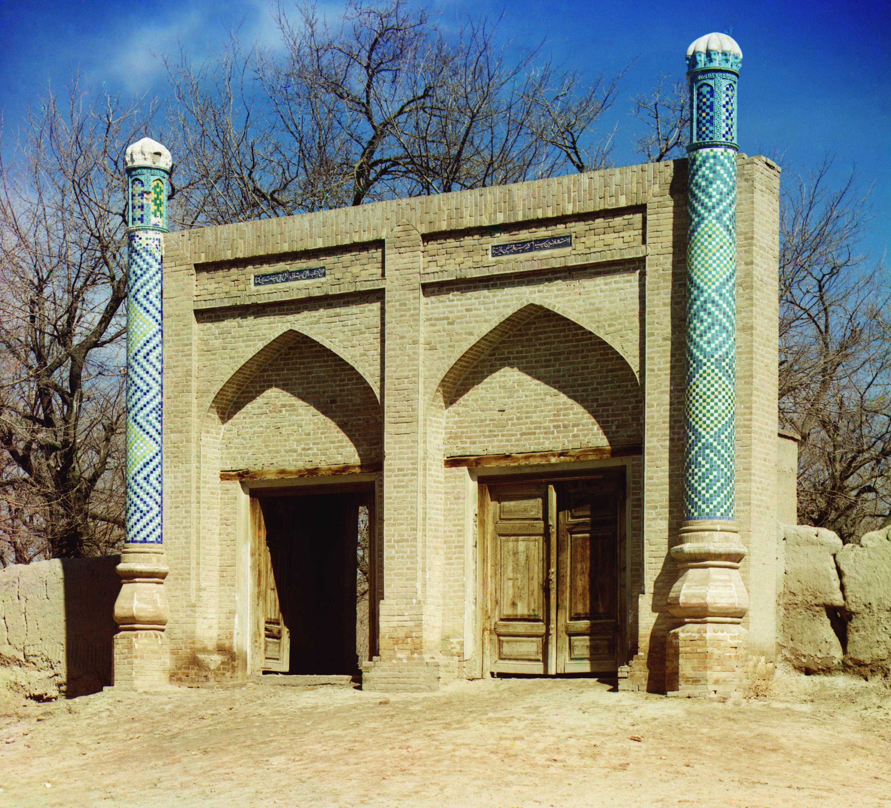 Entrance into Namazga mosque — Samarkand